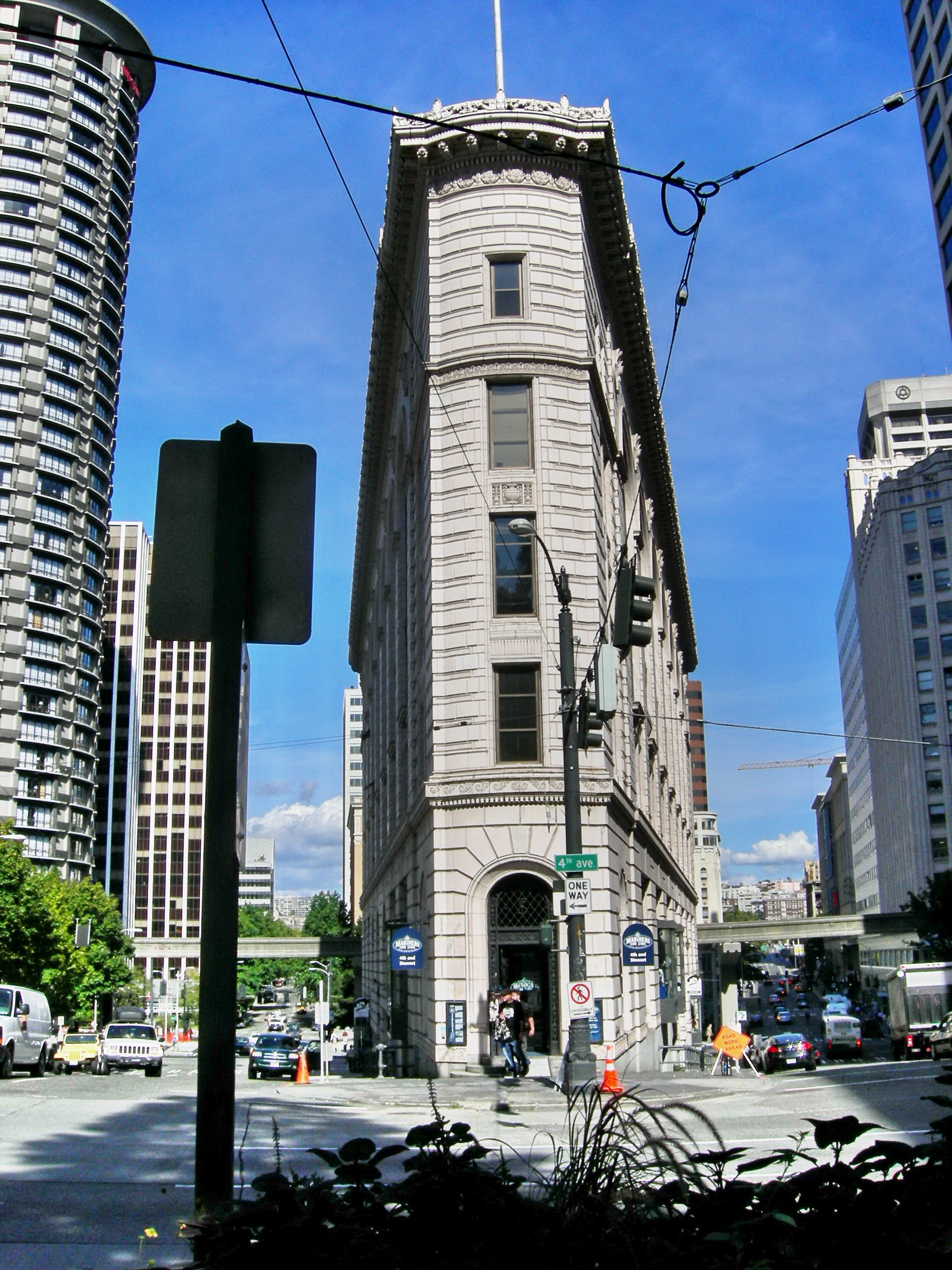 The old Seattle Times Building, downtown Seattle, Washington. The building is now called the Times Square building and is a mix of offices and retail. It is on the National Register of Historic Places. Cylindrical building at left is the Westin Hotel (formerly Washington Plaza Hotel); at right (mostly in shadow) is part of the Medical Dental Building, also included in the National Register. The Seattle Center Monorail tracks can be seen running left-to-right behind the old Times Building.